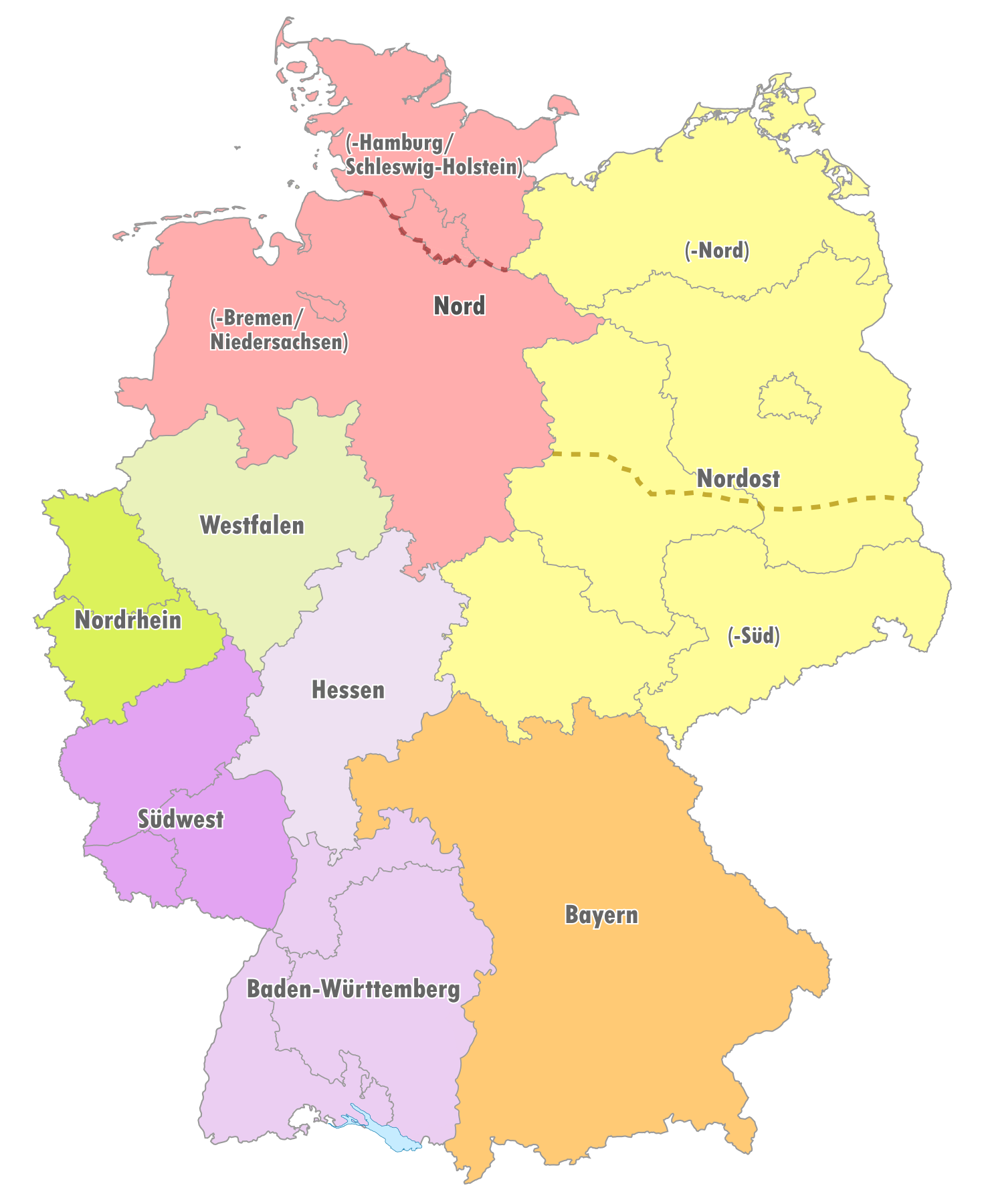 Map of German sub-regional soccer league, 1994-2004